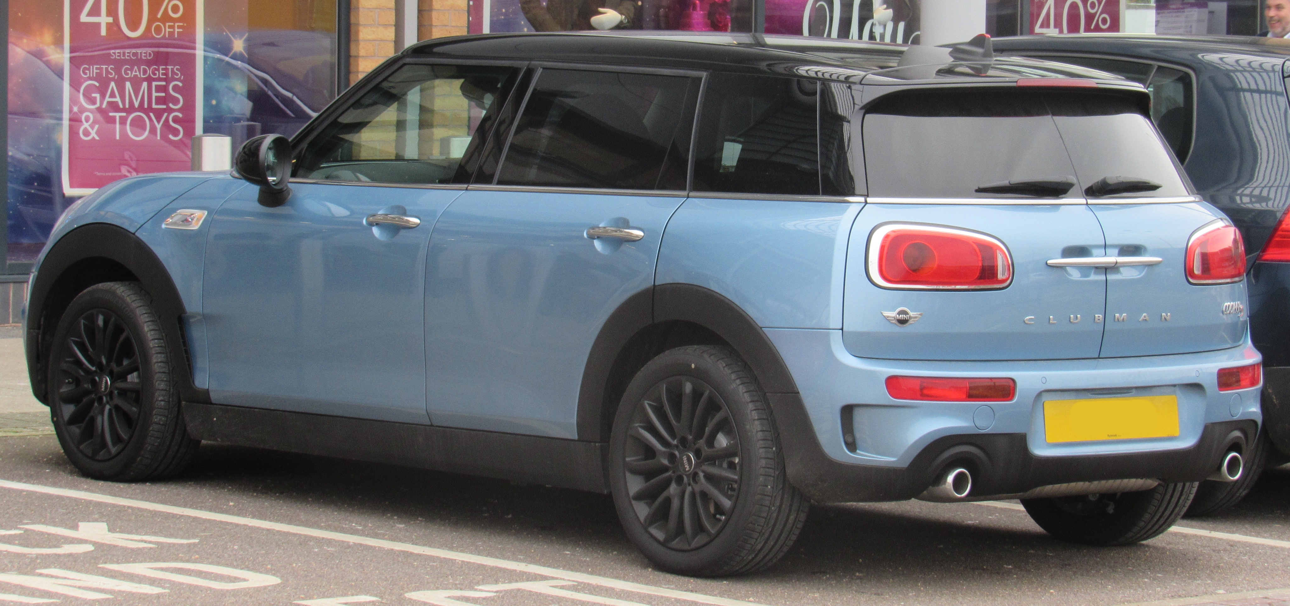 2017 Mini Cooper S Clubman Automatic 2.0 Taken in Leamington Spa